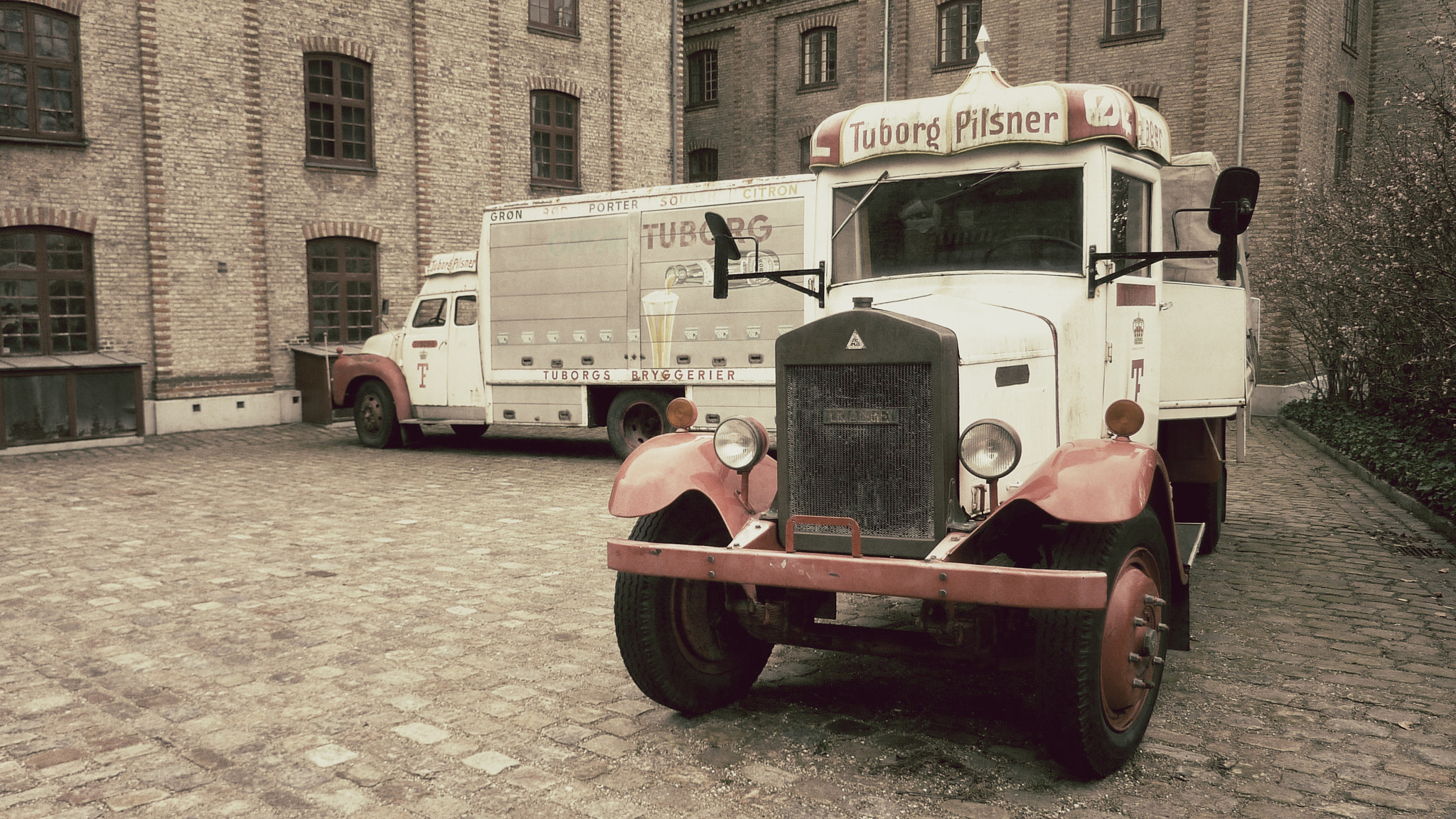 500px provided description: Old beer trucks near Carlsberg factory in Copenhagen. [#denmark ,#retro ,#old ,#vintage ,#truck ,#beer ,#copenhagen]